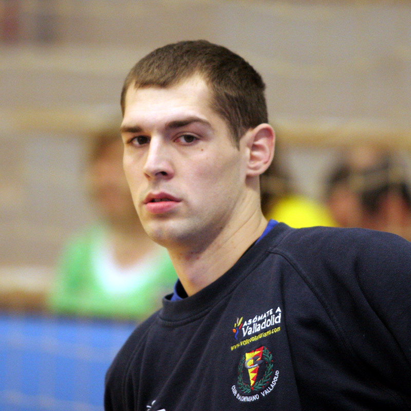 Nenad Bilbija of Balonmano Valladolid (BM Valladolid) prior the EHF Cup Winner's Cup semi-final match vers. Rhein-Necker Löwen on April 5th, 2008 in Heidelberg-Eppelheim (Rhein-Neckar Halle).